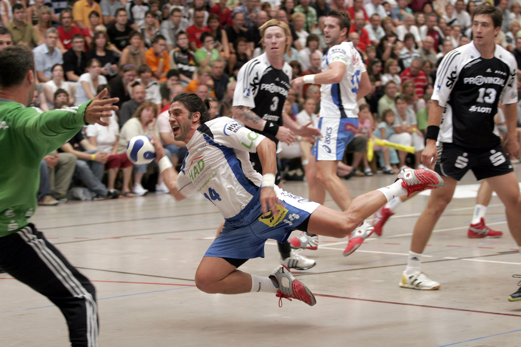 Bertrand Gille, the French handball player from HSV Hamburg, during the Schlecker Cup 2007 in Ehingen (Germany)